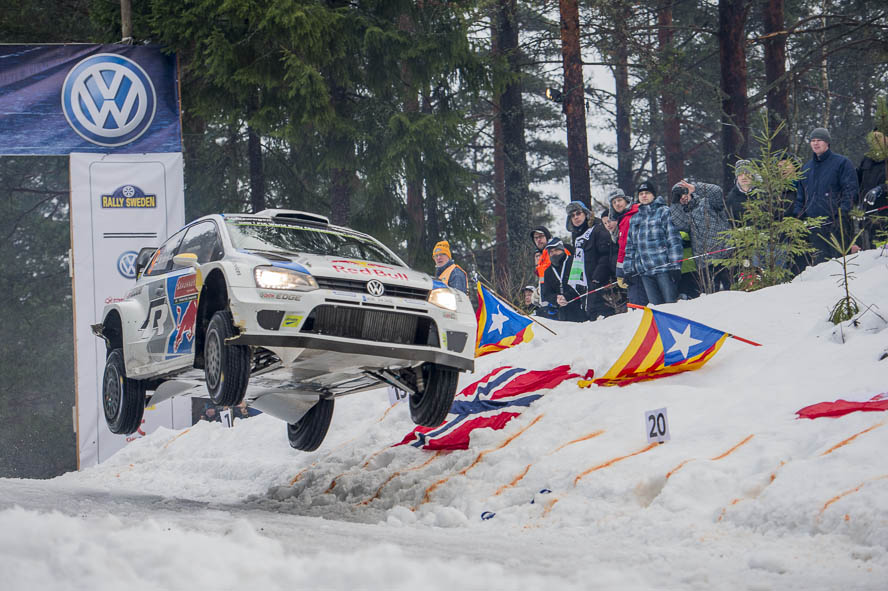 Rally Sweden 2014 Andreas Mikkelsen,Colin's Crest Arena,Mikko Markkula,Motorsport,Rally,Rally Sweden,Rallye,Rallye Schweden,SS19,VW Polo R WRC,Vargäsen 1,Volkswagen Motorsport II,Volkswagen Polo R WRC,WP19